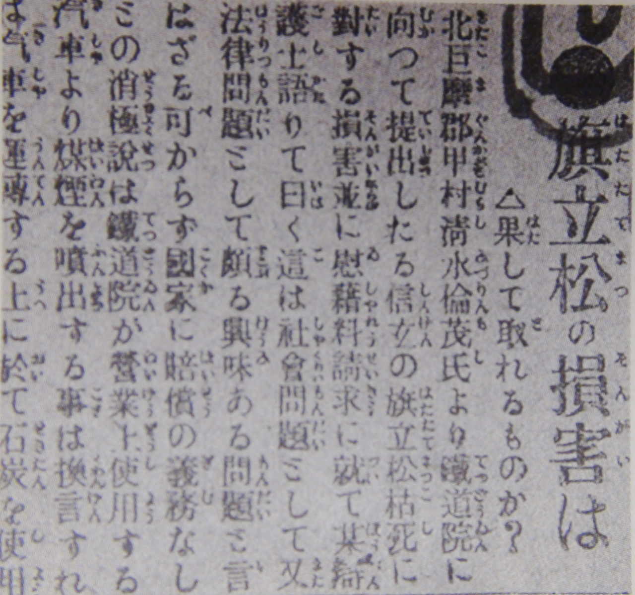 The newspaper side in 1916 which reports the claim for damages to the Shingen-ko Hatakake-matsu pine tree